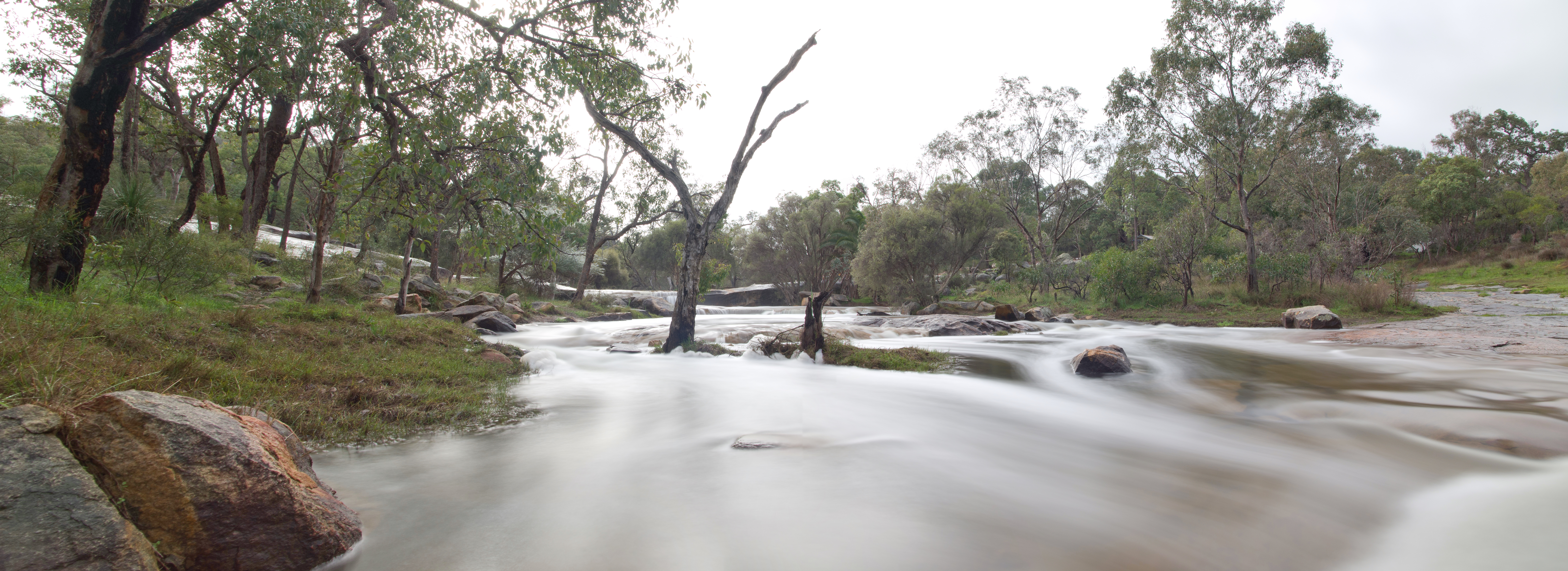 Noble Falls, Western Australia 4 photo stitch all taken at f13 30sec using a ND1000 filter